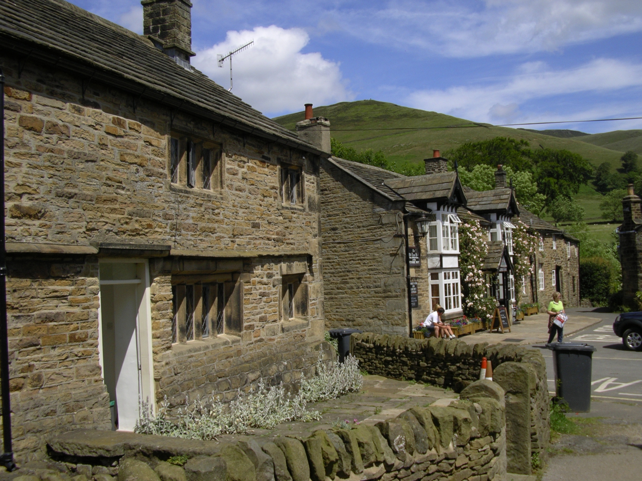 Photo I took at the start of the Pennine Way in July 2005.